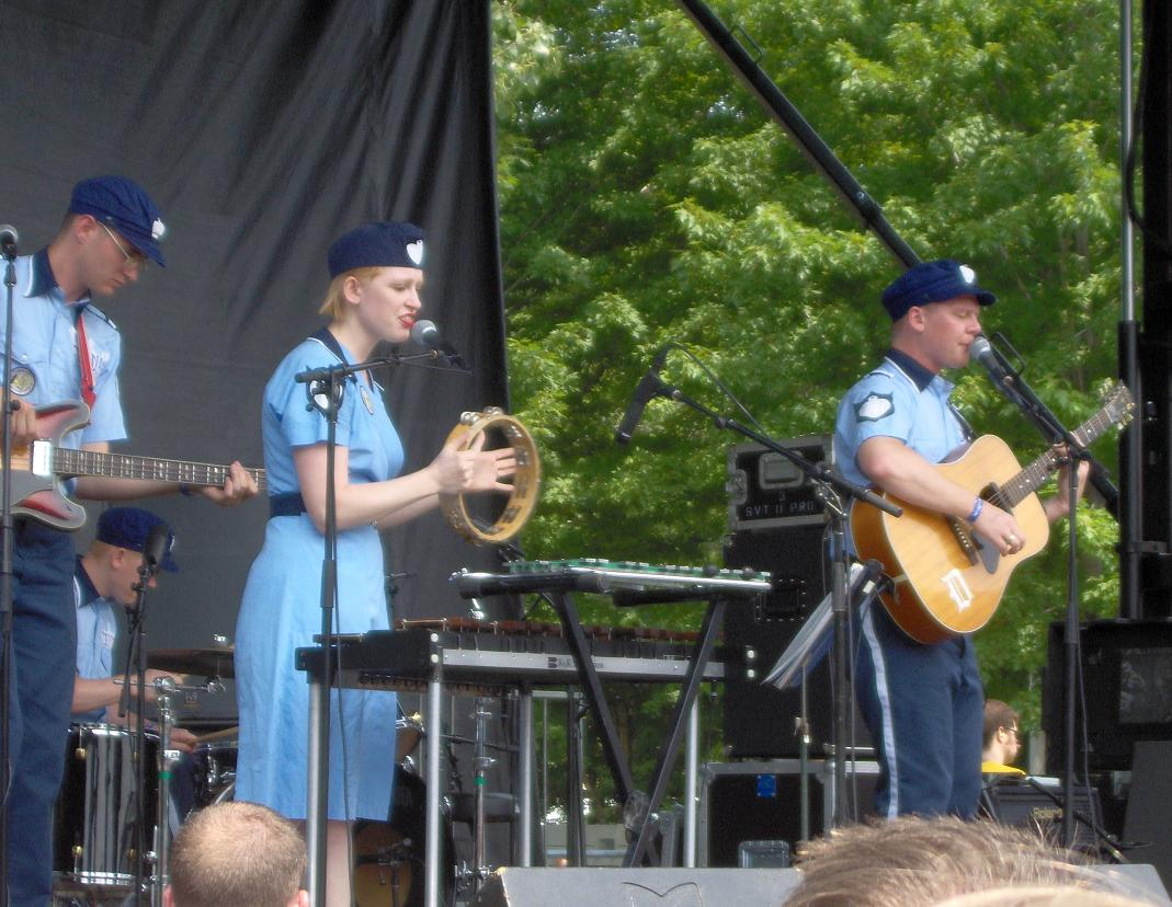 This is Danielson performing at the Pitchfork Music Festival on July 30th, 2006